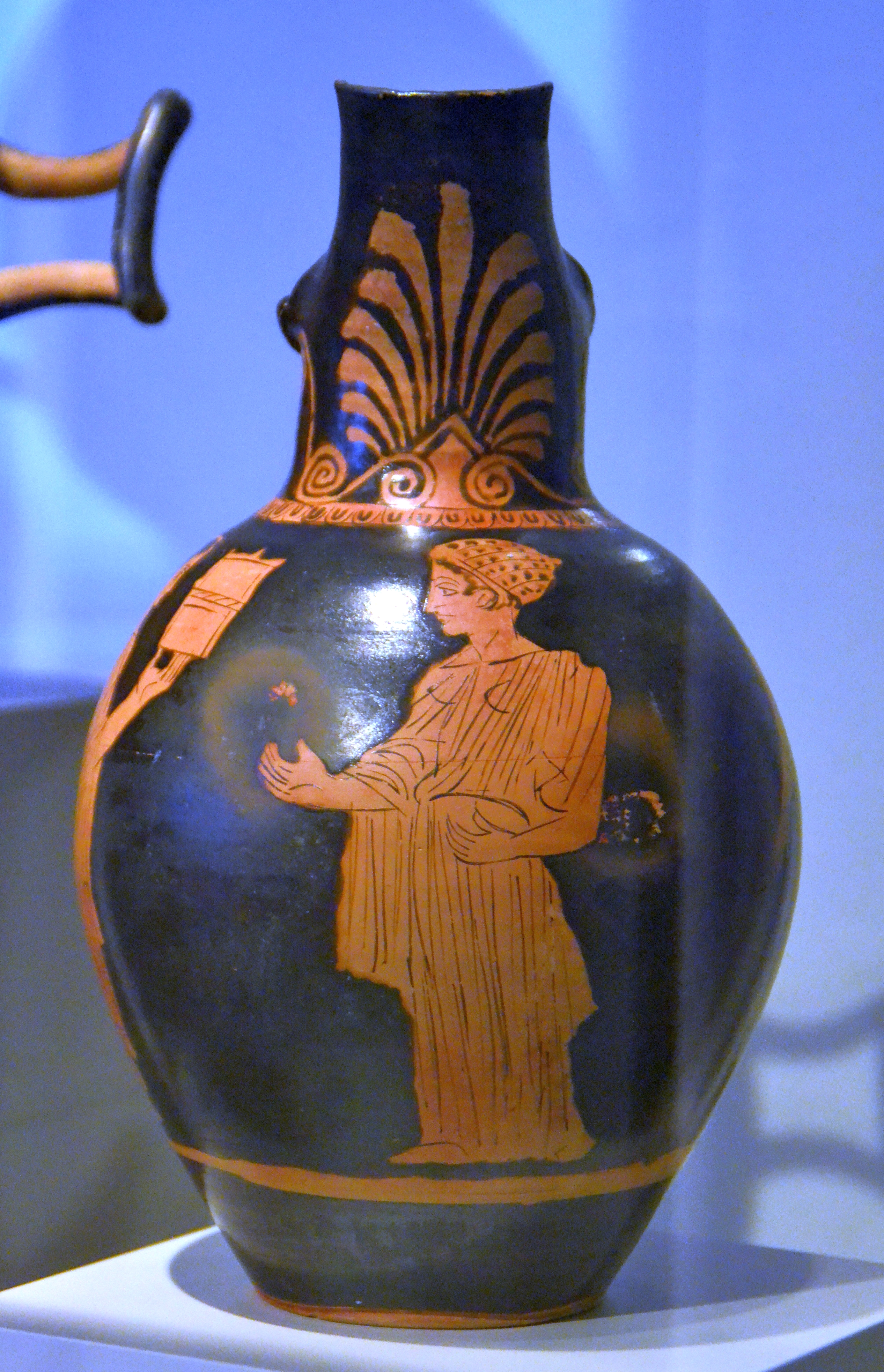 Etruscan red-figure beak-spouted jug: a scene from the womans quaters depicting women and girls with jewellery box; from Chiusi; Clay, about 400/350 BC; Antikensammlung Berlin V.I. 3235.